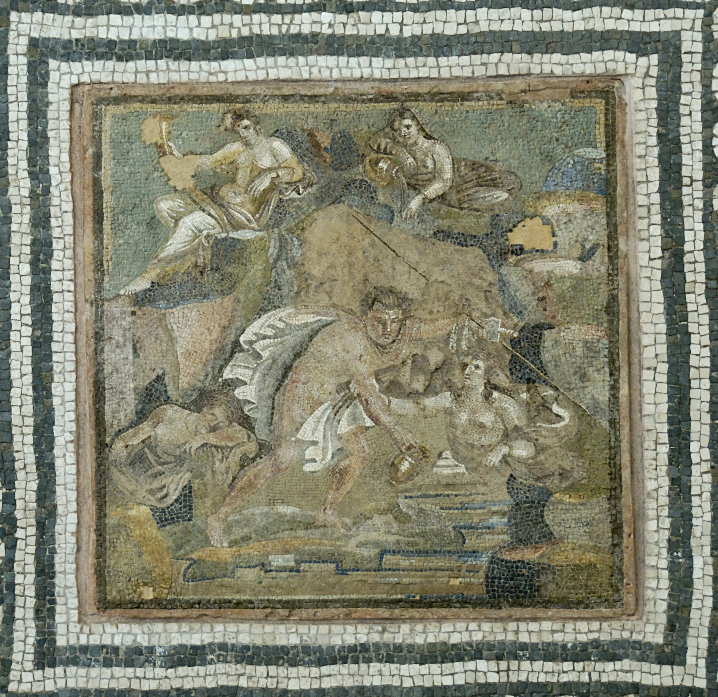 Central panel of a floor mosaic with Hylas and the nymphs. Roman mosaic, dated between the late 2nd century BC and the beginning of the Imperial era. From Tor Bella Monaca, Rome.